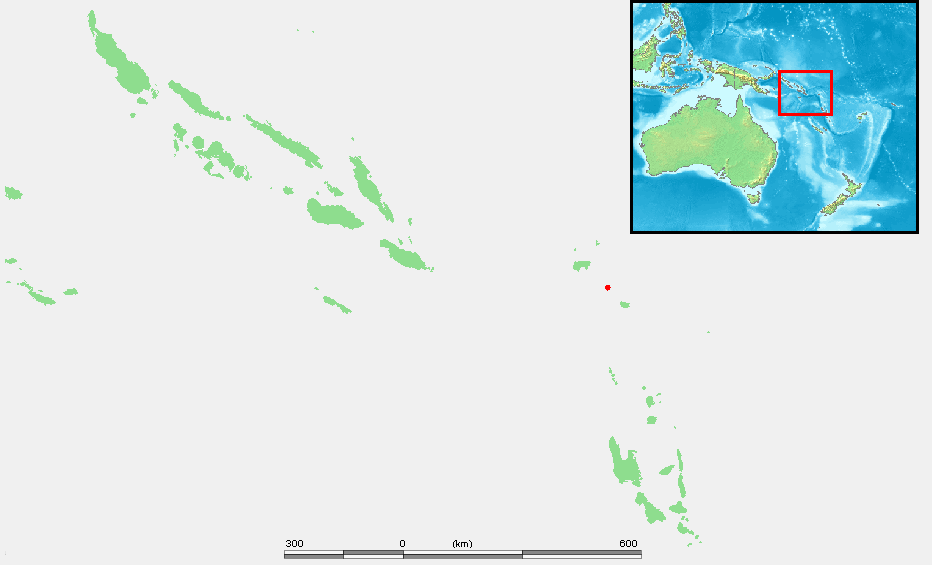 Island of Solomon Islands - Utupua.PNG